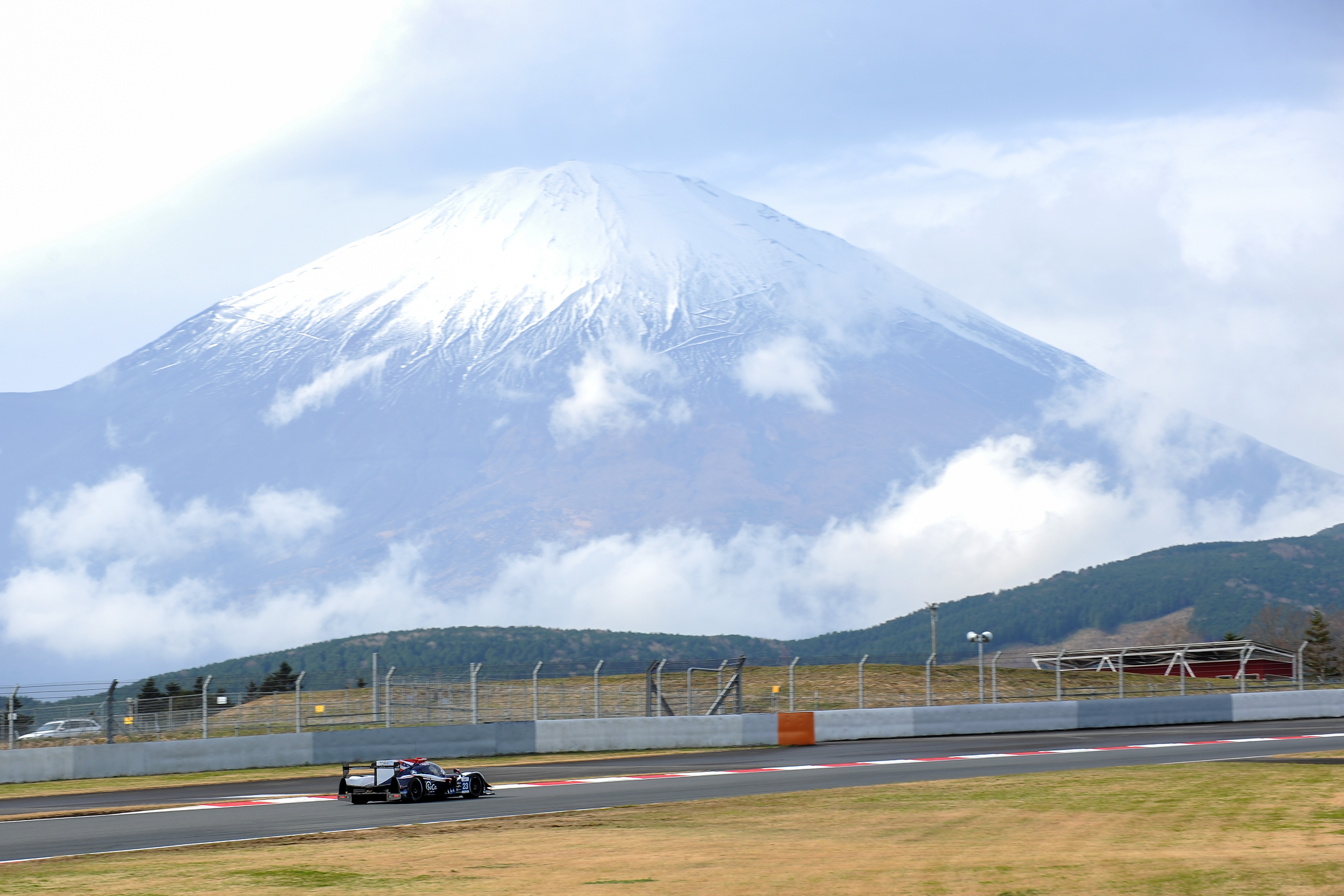 2018 4 Hours of Fuji